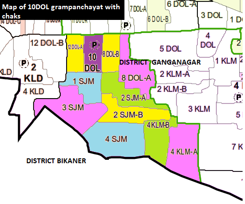 A map of 10 dol grampanchayat.